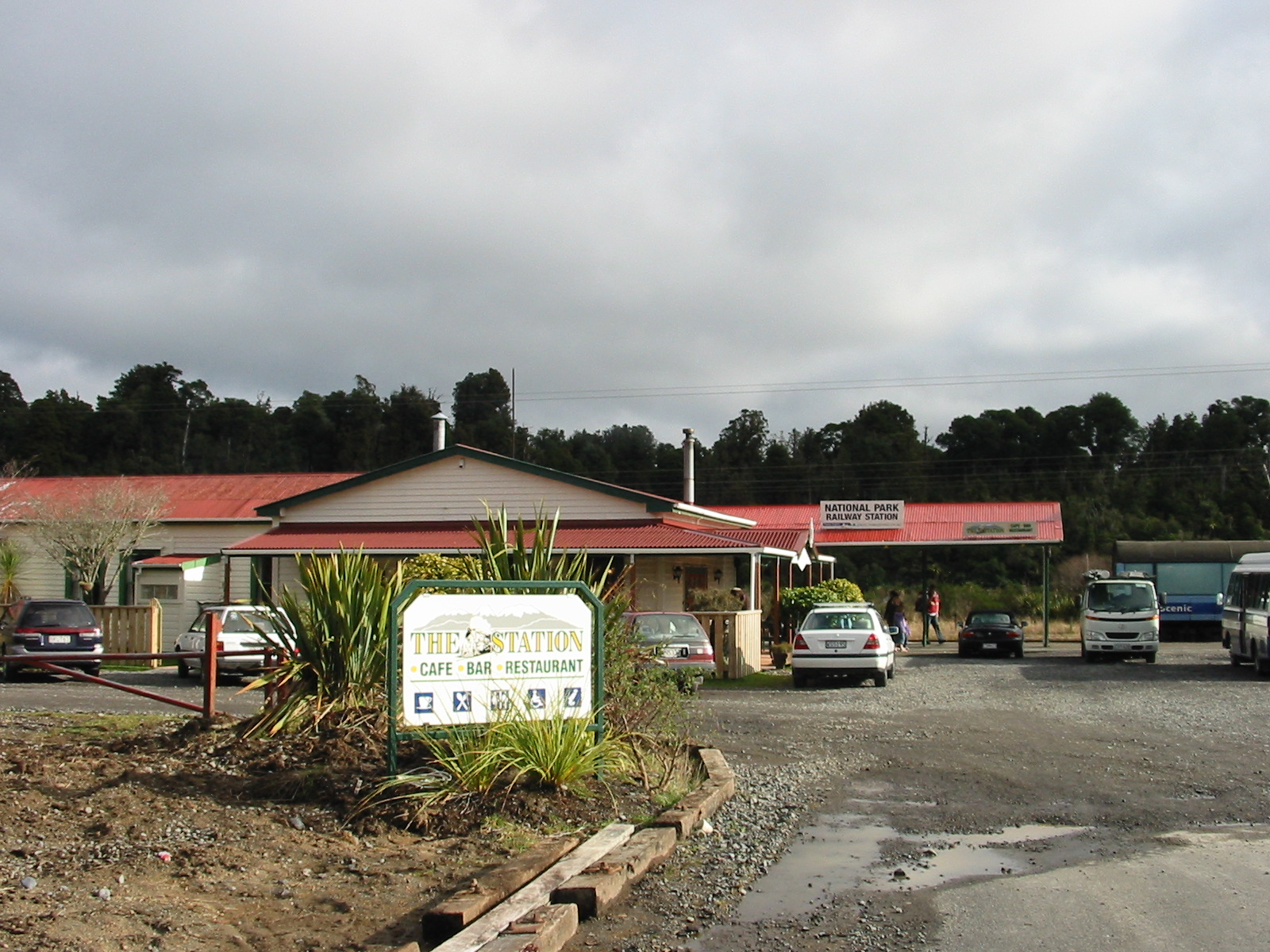 National Park, NZ Railway Station.